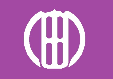 Flag of Inakadate Aomori